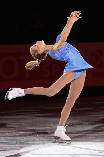 Becky Bereswill performs a Layback spin during her exhibition at the 2008-2009 Junior Grand Prix Final.